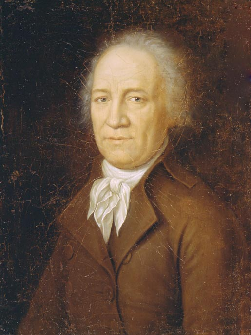 Portrait of the agriculturist Andrei Bolotov (1738-1833)